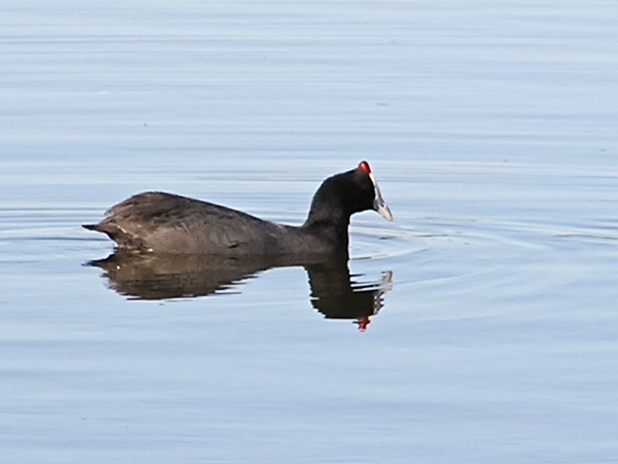 Fulica cristata Red-knobbed Coot Foulque à crête My own picture — South Africa, Wilderness National Park — July 2003